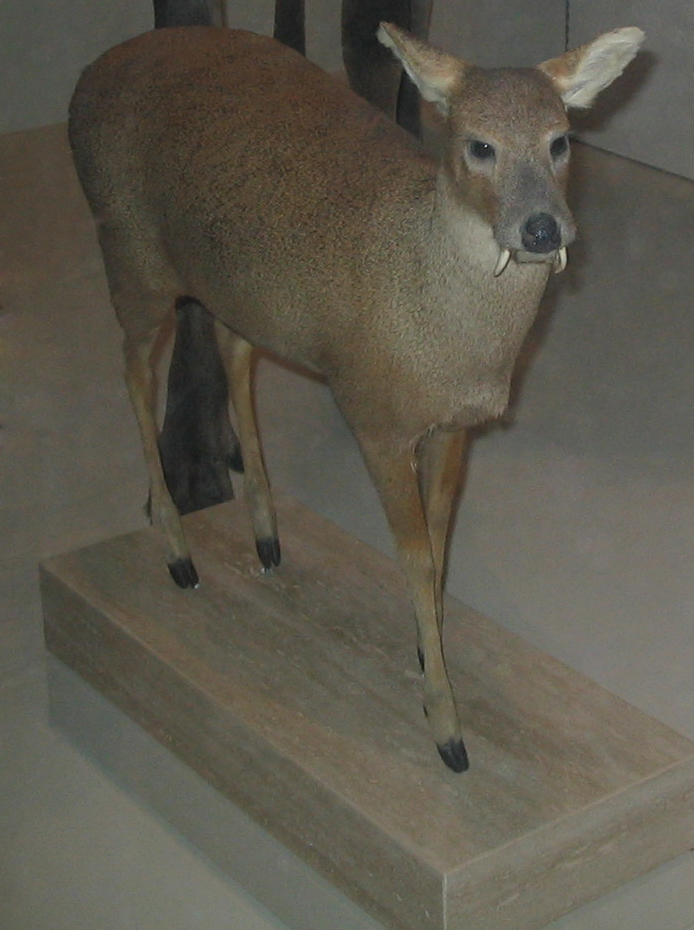 A picture of a stuffed Chinese Water Deer taken at the National Museum of Natural History. The photo has been cropped and modified from the original version of the specimen eliminate the reflection in the glass.